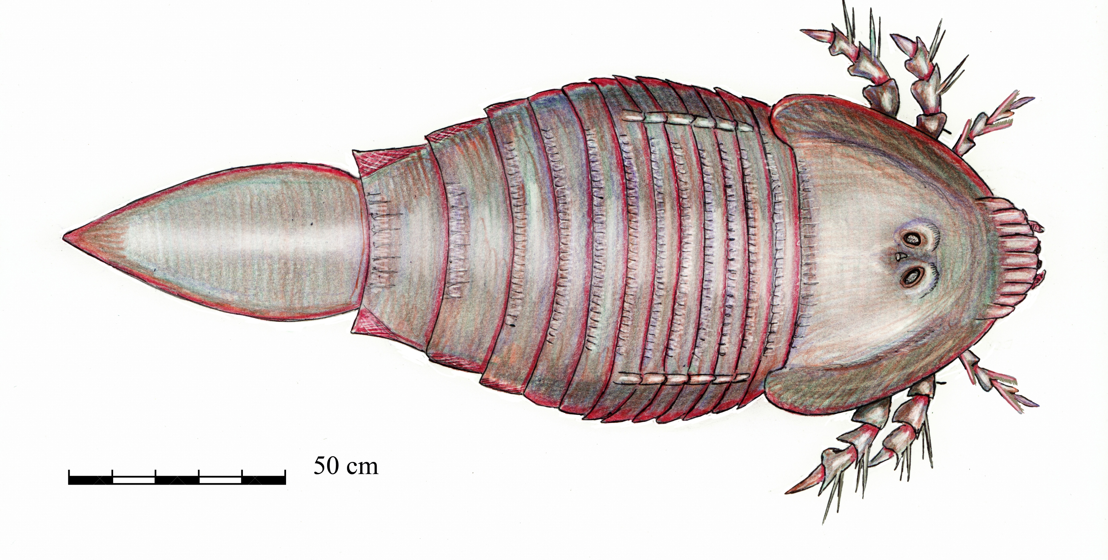 Hibbertopterus wittebergensis, giant eurypterid from Early Carboniferous (Tournaisian) of South Africa. From above. Size based on biggest exemplairs predicted by trackway evidence.